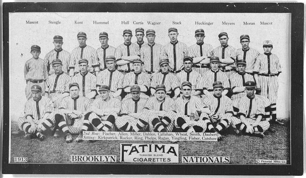 The Brooklyn Nationals (currently Brooklyn Dodgers) baseball team, with an ad of "Fatima Cigarettes", middle below.